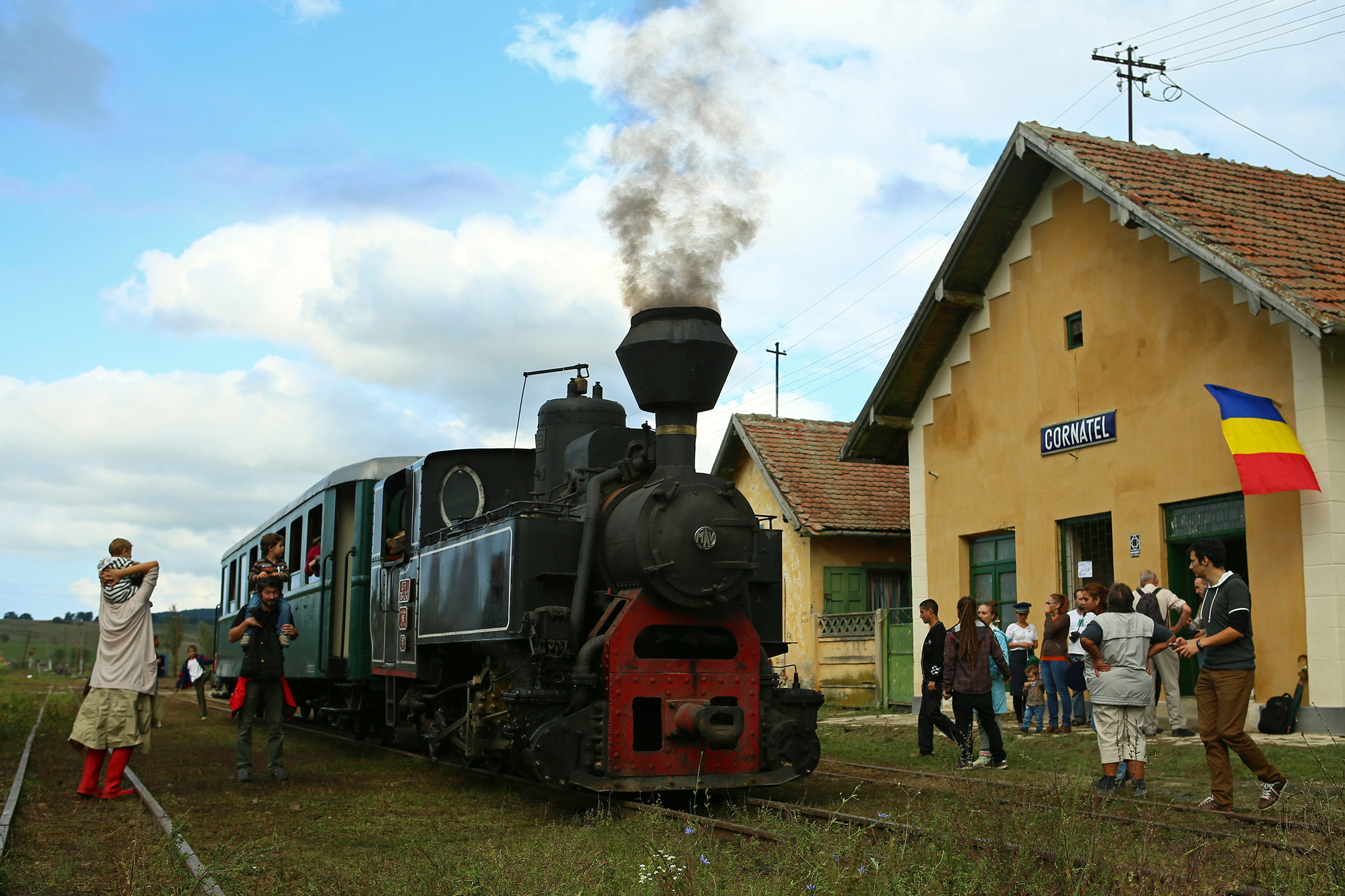 764 243 (built in Budapest 1911, from CFI Brad) with a special train in Cornățel